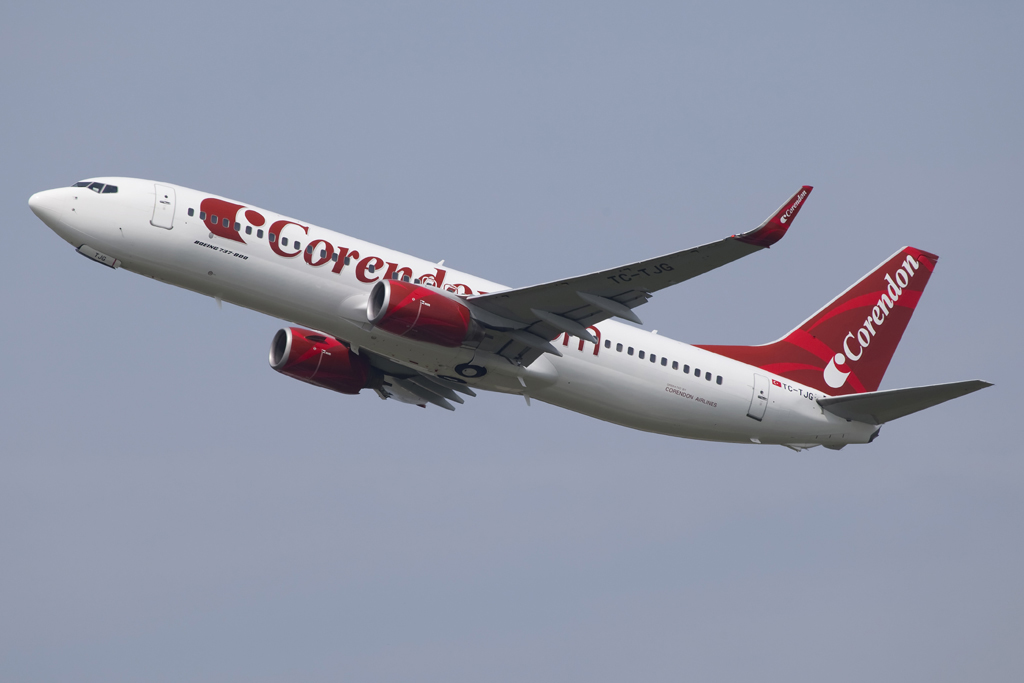 TC-TJG B737-800 Corendom